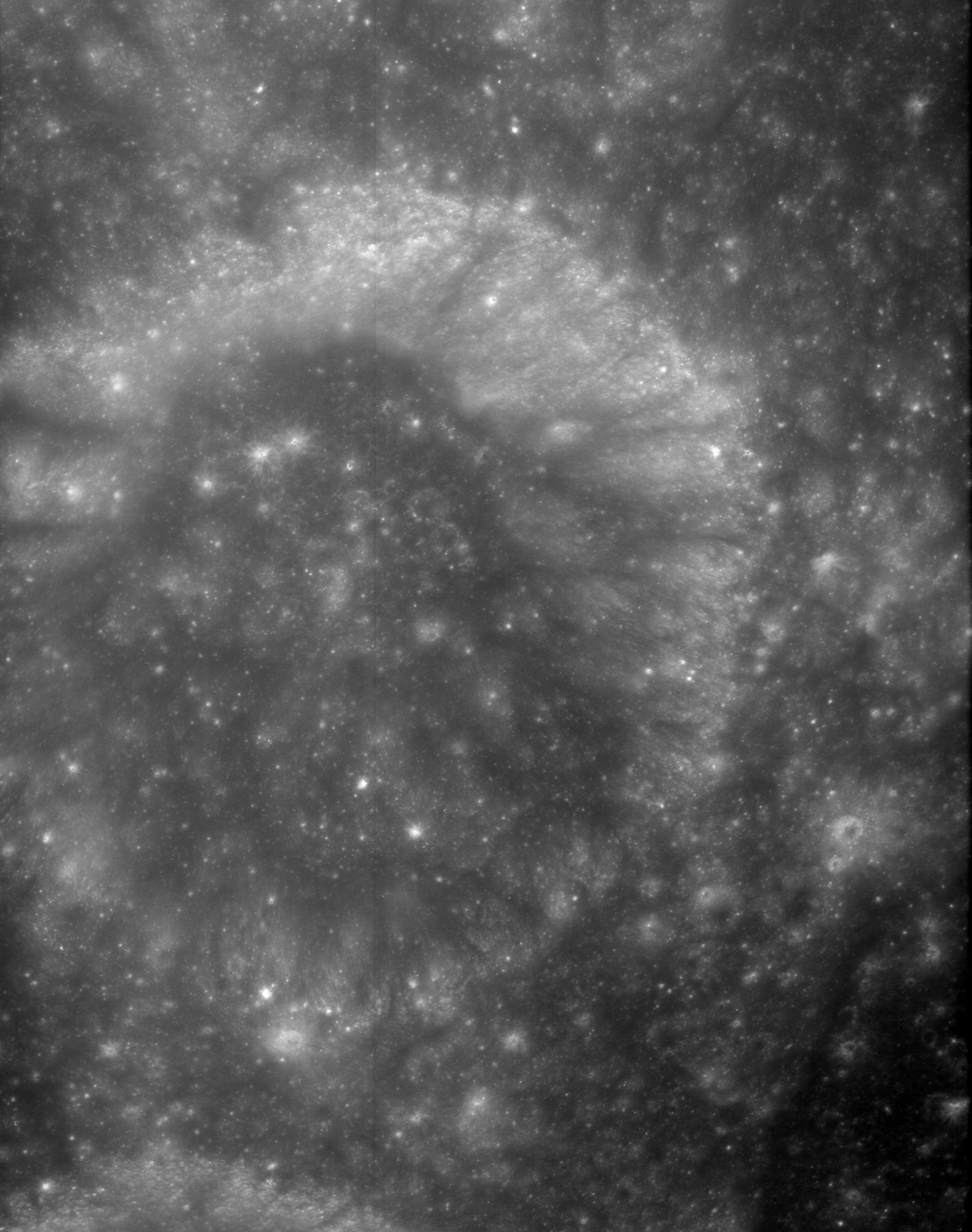 Krogh crater on the moon. Approximate north is up. Taken by Apollo 17 panoramic camera.